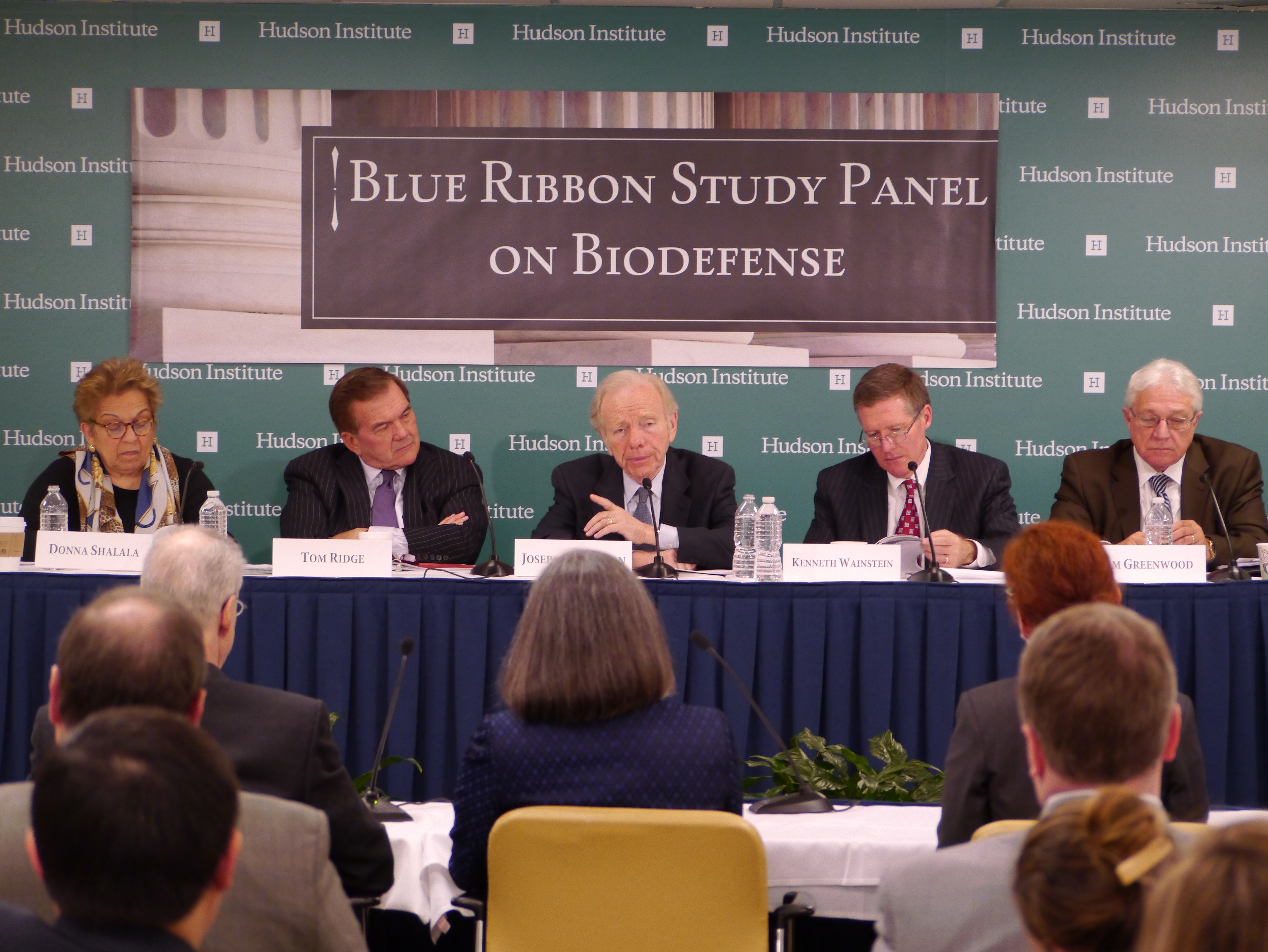 Blue Ribbon Study Panel on Biodefense at Hudson Institute